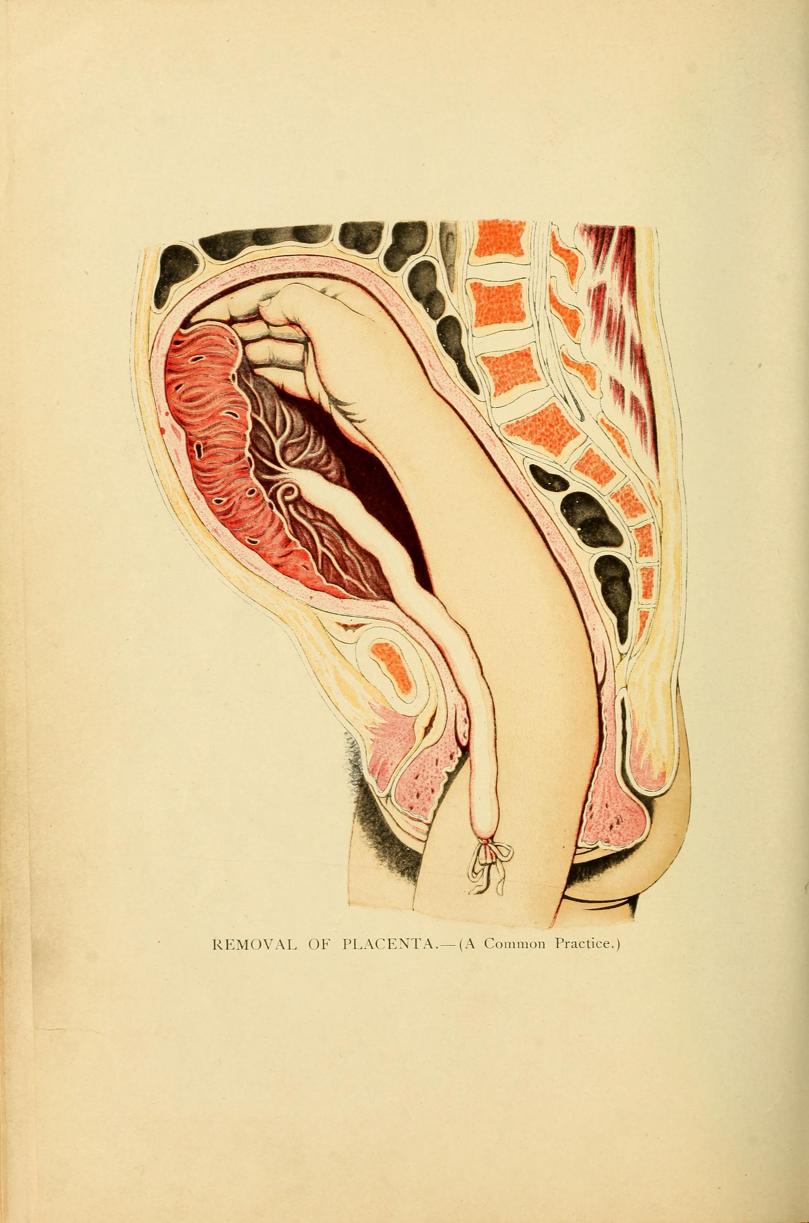 Removal of placenta (by a method no longer recommended) Title: Feminology; a guide for womankind, giving in detail instructions as to motherhood, maidenhood, and the nursery Year: 1902 (1900s) Authors: Dressler, Florence Subjects: Publisher: Chicago, C. L. Dressler & co. Text Appearing Before Image: POSTERIOR ARM PRESENTING. Text Appearing After Image: REMOVAL OF PLACENTA.—(A Common Practice.) CONFINEMENT. 197 It should not be hurried. By no manner of means shouldit be expelled by action of drugs, nor the cord be pulled todraw the placenta, unless it be loose, nor a hand insertedto scrape it from the uterine walls. If the placenta isadherent, unless there be flooding, wait natures time. Thepatient will be better for it. It has been known to beretained thirty-six to forty-eight hours. Forcibly removingit is fraught with danger to the patient. Warm injectionsused in the bowels will prove helpful. Dr. Stockham recom-mends an injection of cold water into the vein of the cord,in case of hemorrhage, which, she says, will, in many cases,remove a retained placenta. After being expelled with the membranes, it should beburned or buried. Never in any instance should it be throwninto a privy vault, as it putrefies rapidly, and will give riseto sickness. Fire consumes impurity, and the earth absorbsand scatters it. A flow of blood accompanies